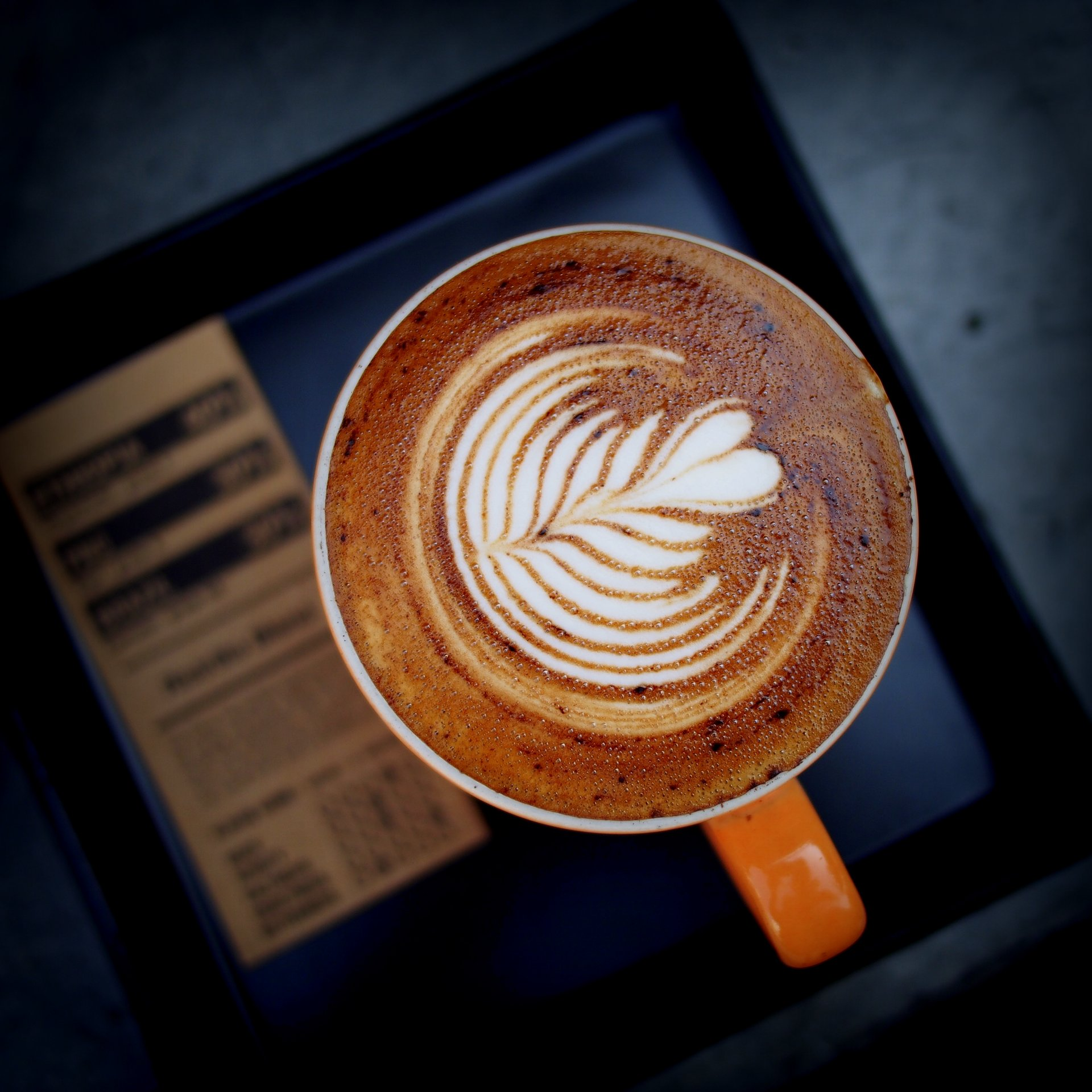 A cappuccino in Chiang Mai, Thailand, showing a perfect "tulip".